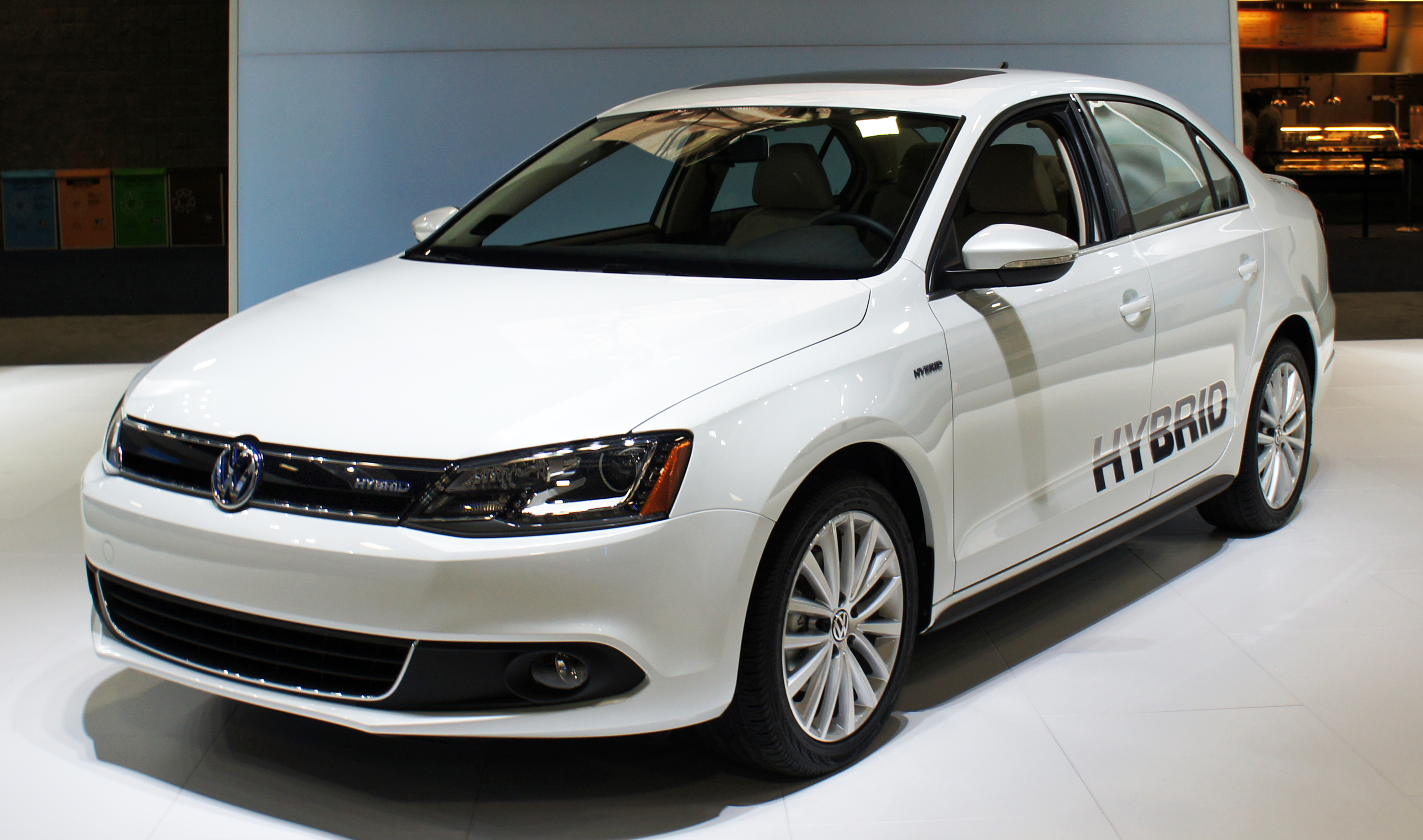 2013 VW Jetta Hybrid exhibited at the 2012 Washington Auto Show (D.C.)